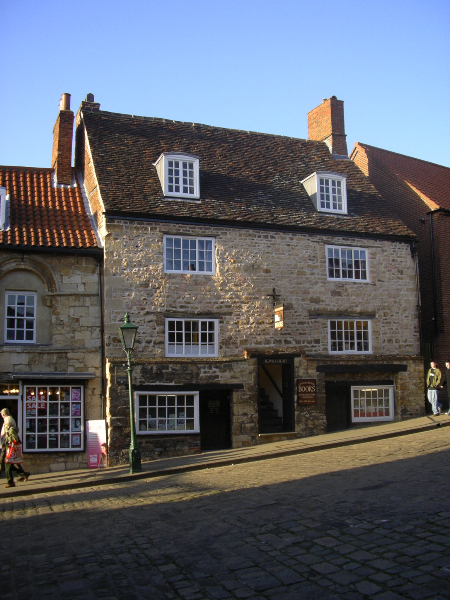 Frontage of Jew's Court in Lincoln, on Steep Hill.